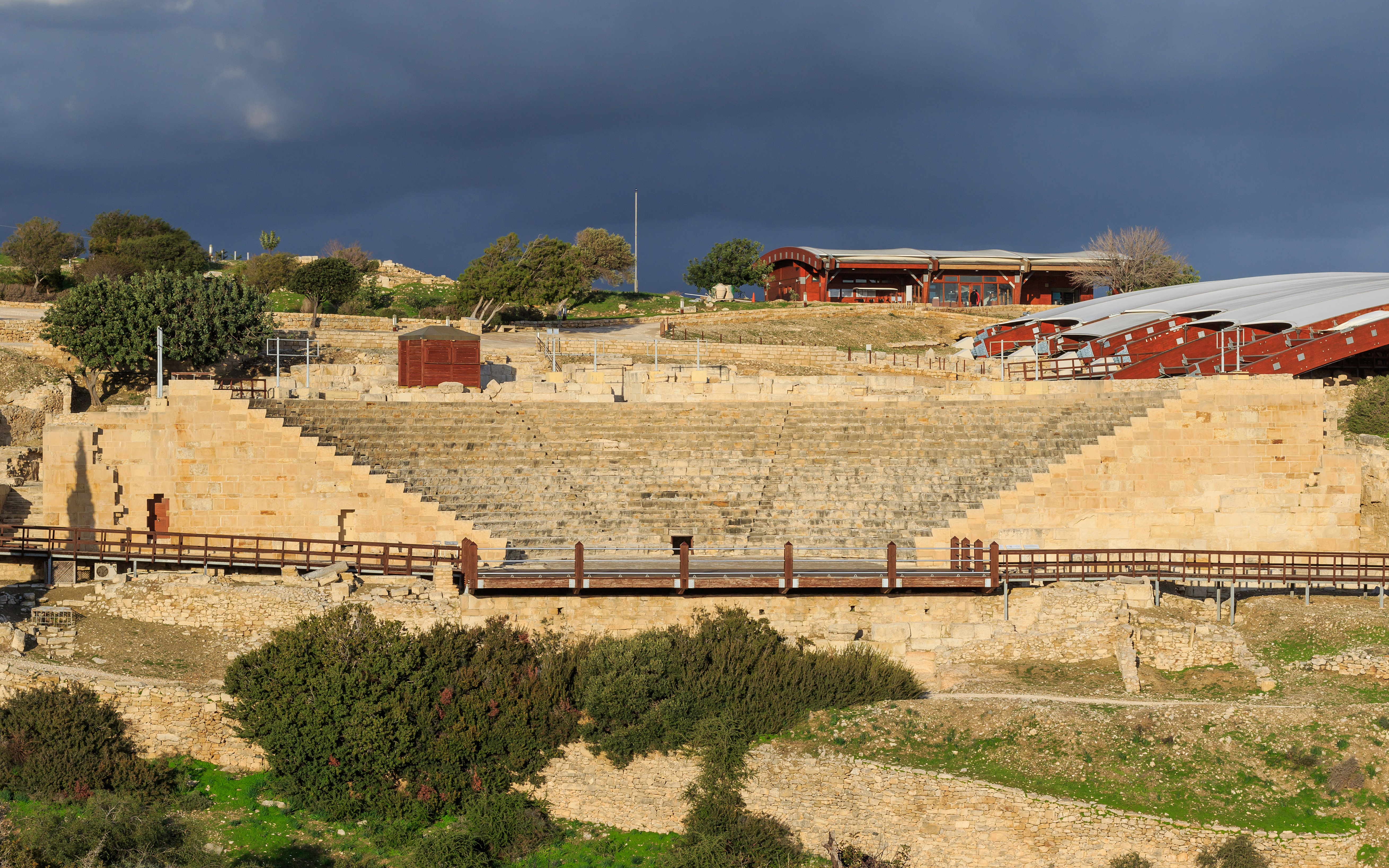 Ancient town of Kourion near Limassol, Cyprus. The Theater of Kourion.